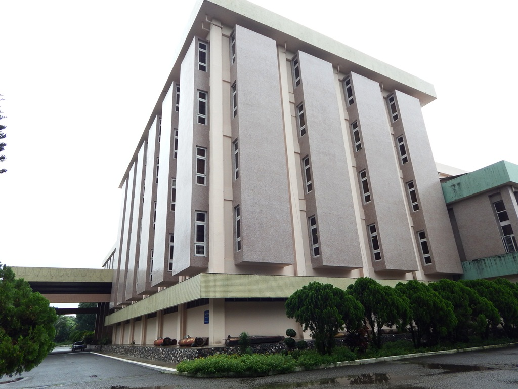 National Museum, Yangon, Burma